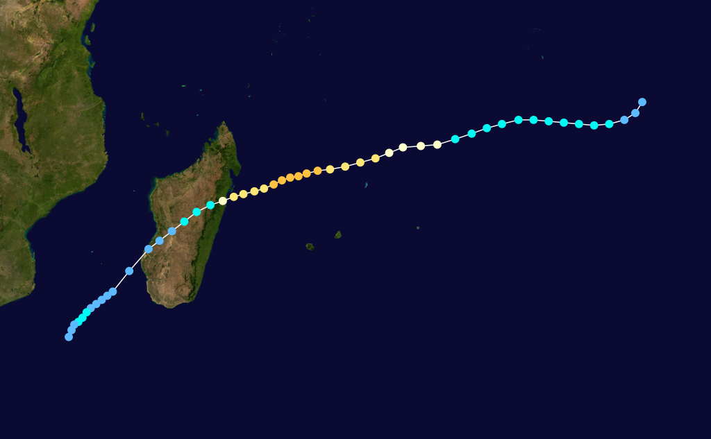 Cyclone Honorinina (1986) track. Uses the color scheme from the Saffir-Simpson Hurricane Scale.